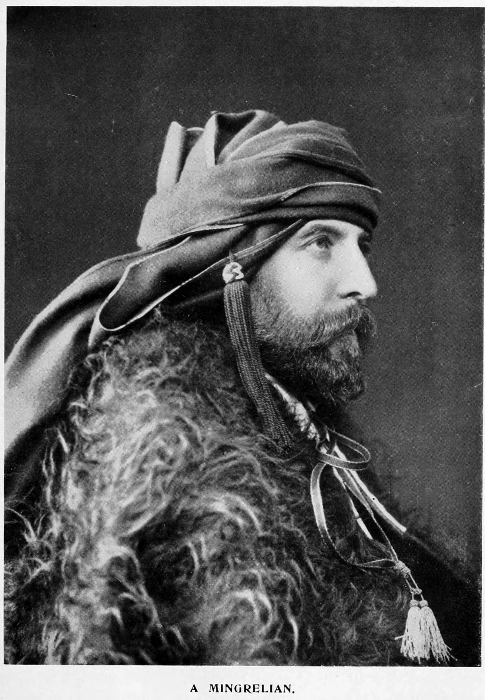 A Mingrelian.